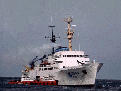 National Oceanic and Atmospheric Administration oceanographic research ship NOAAS Discoverer (R 102)